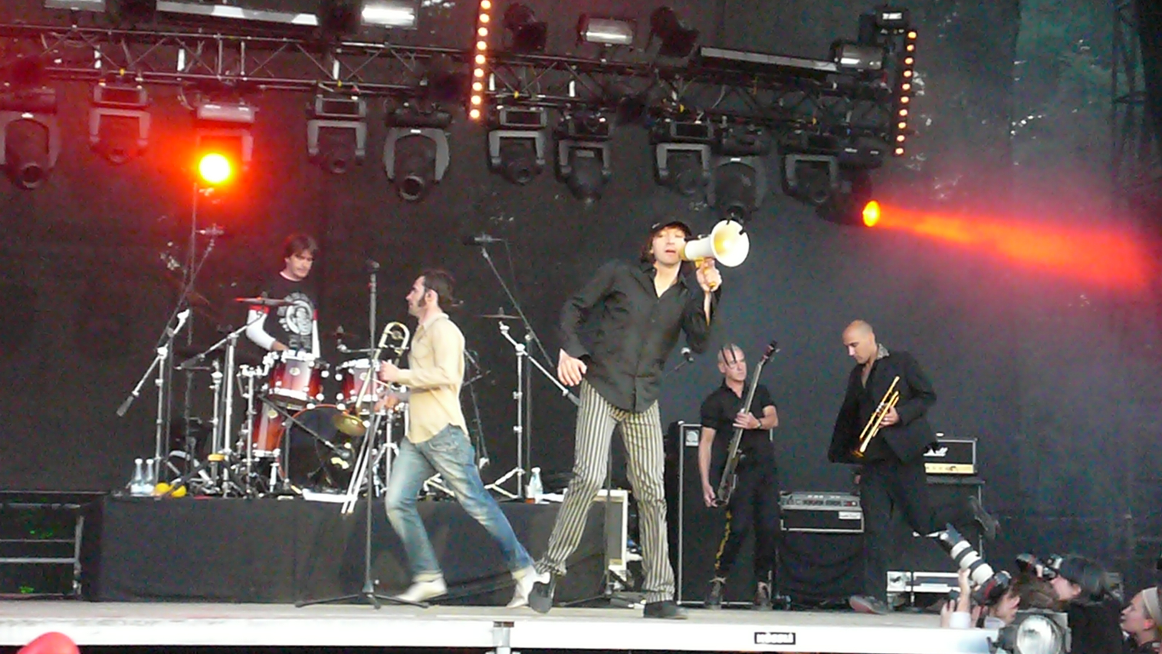 The french singer Cali during the Paléo Festival 2008